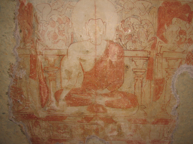 This is an unfinished painting of Buddha on the ceiling of cave no. 34 in Kanheri Caves.